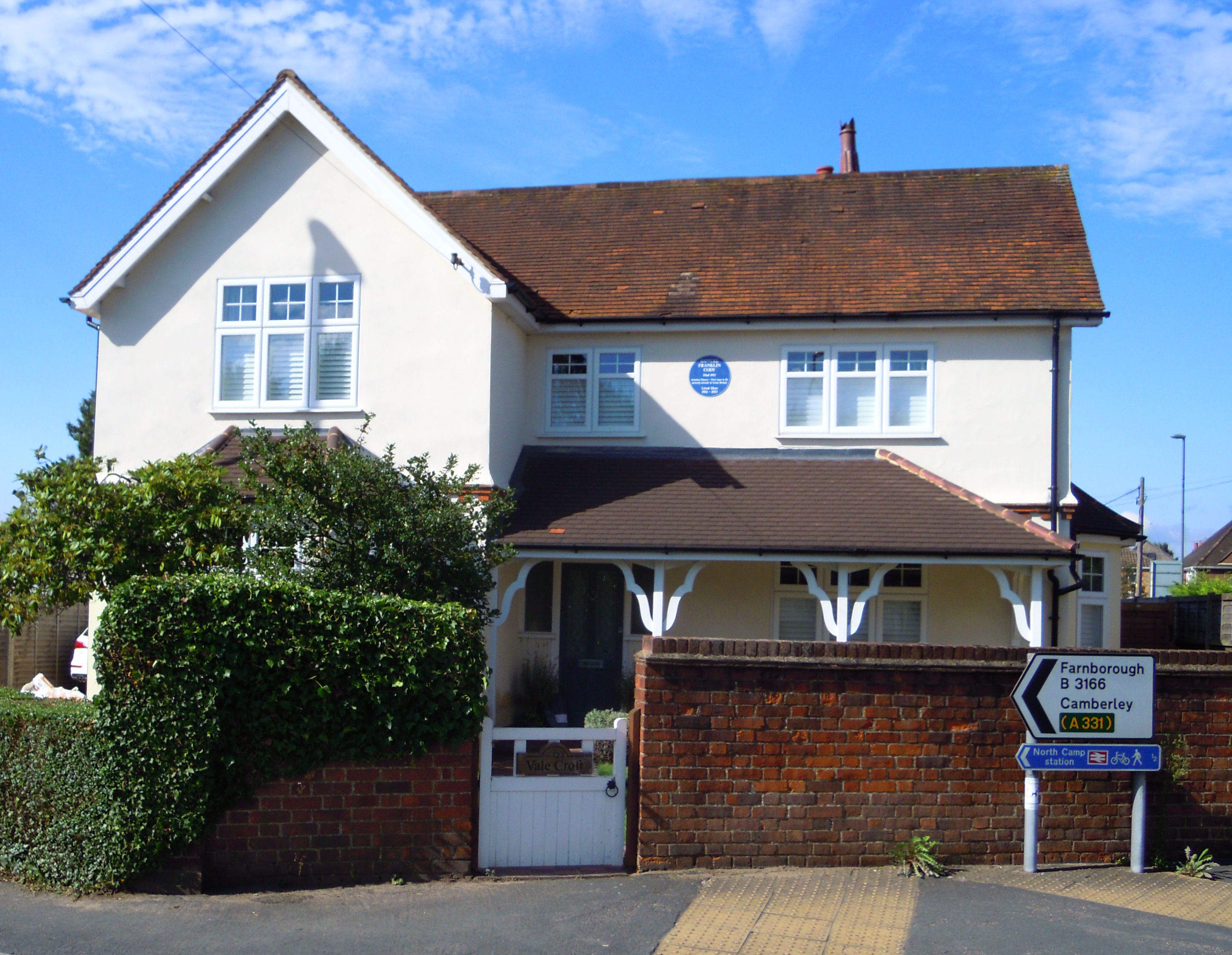 The former home of pioneer aviator Samuel Franklin Cody with its blue plaque in Ash Vale